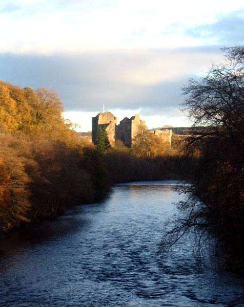 Doune Castle sited above the River Teith. Brought from English Wikipedia with the following credits: photograph taken by mo